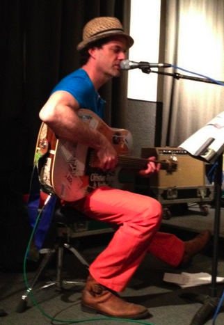 Photo taken by Ariel Hyatt and posted to Flickr with CC Attribution 2.0 license.